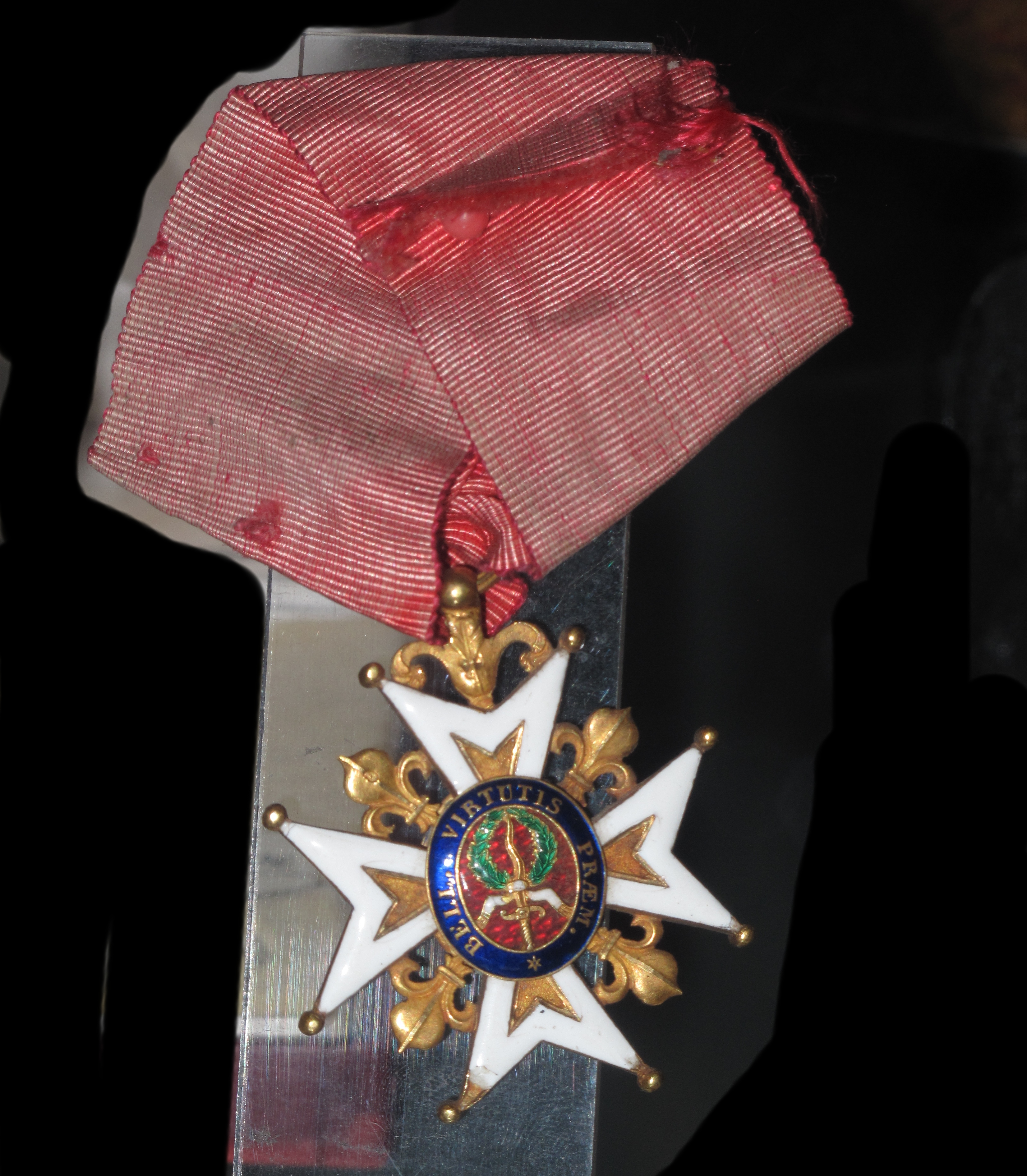 Order of Saint Louis